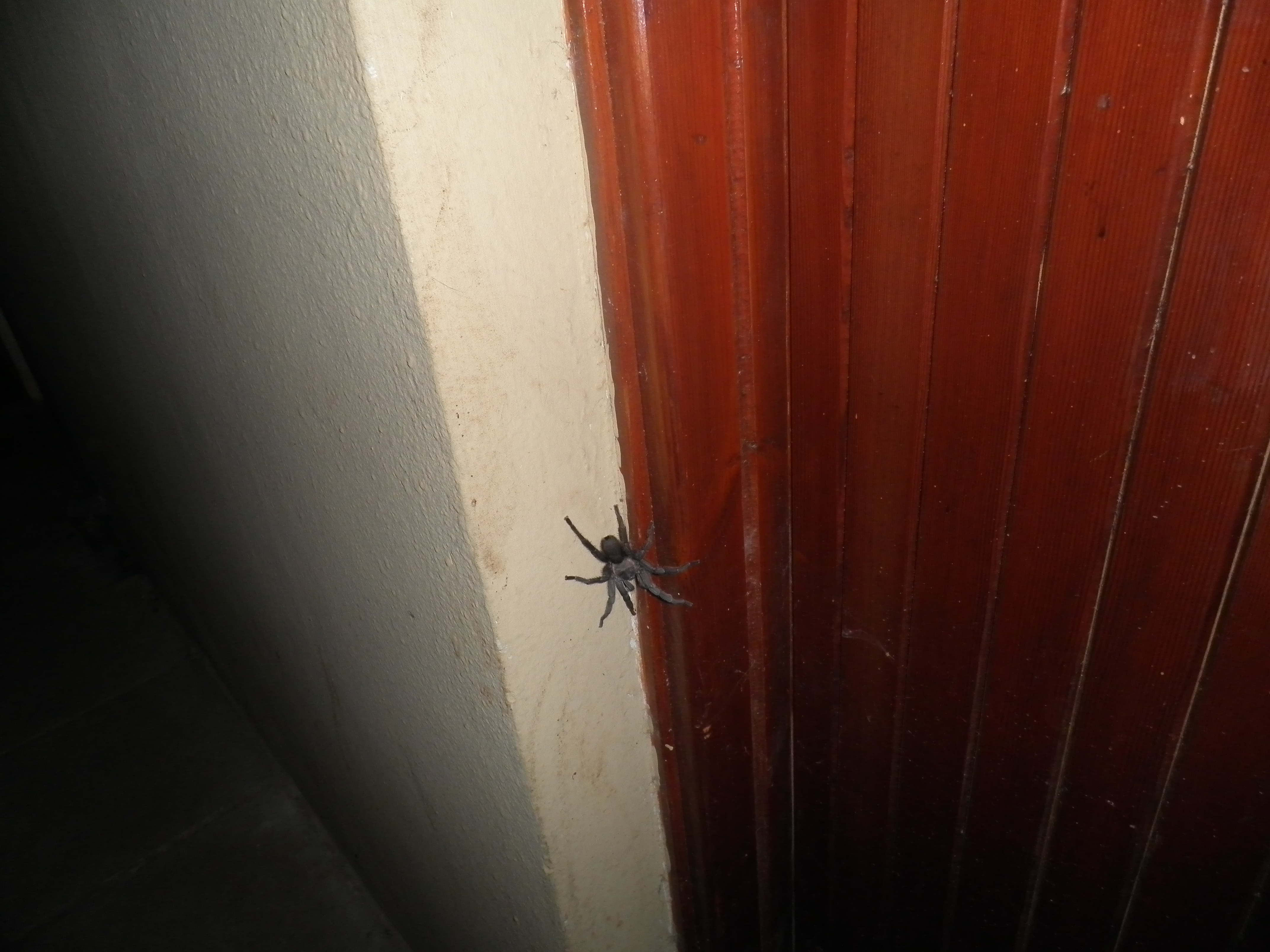 A Chaetopelma olivaceum spider from Galilee, Israel.